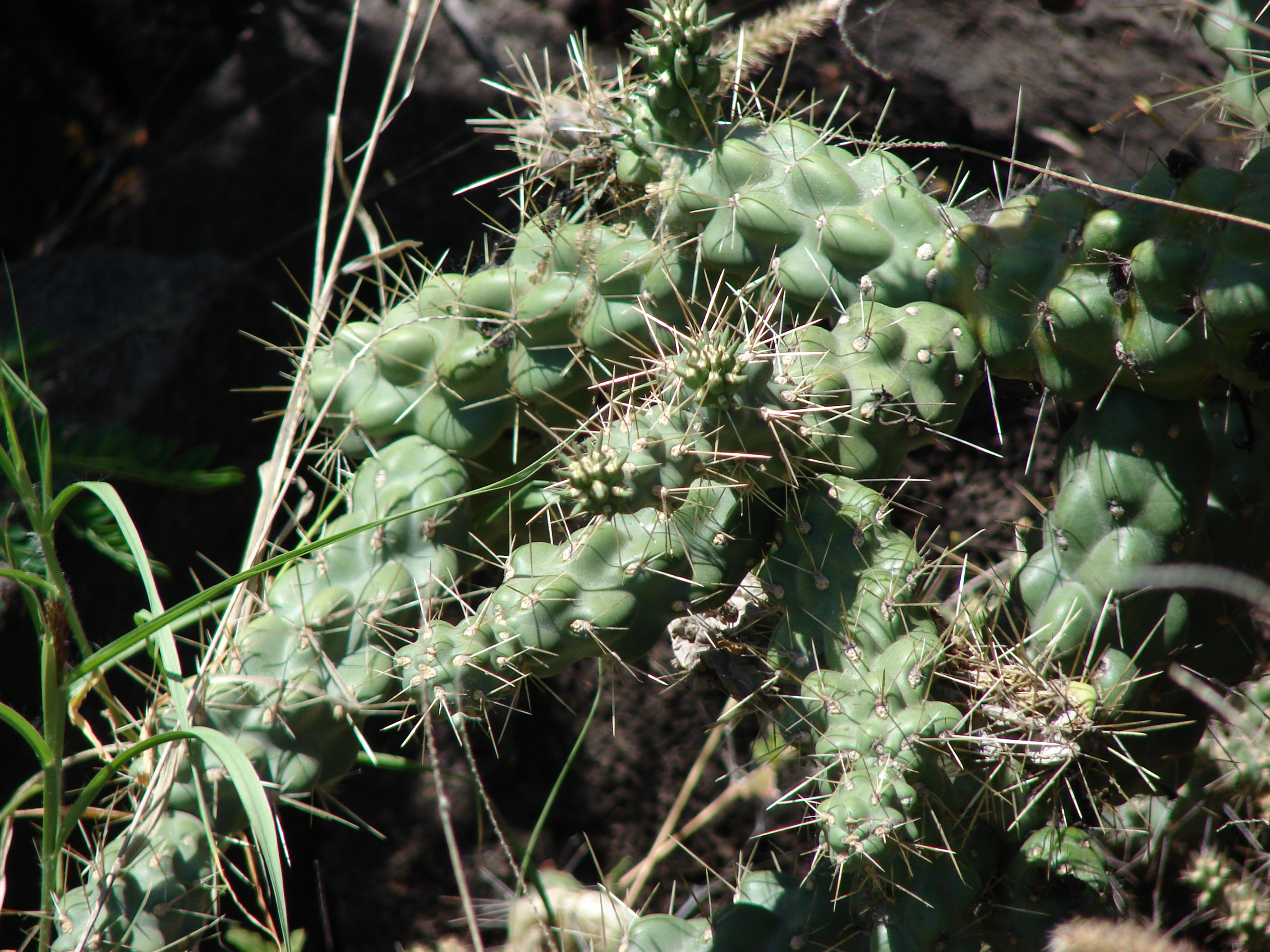 Cylindropuntia cholla (flower and leaves). Location: Lanai, Old Kaumalapau Hwy